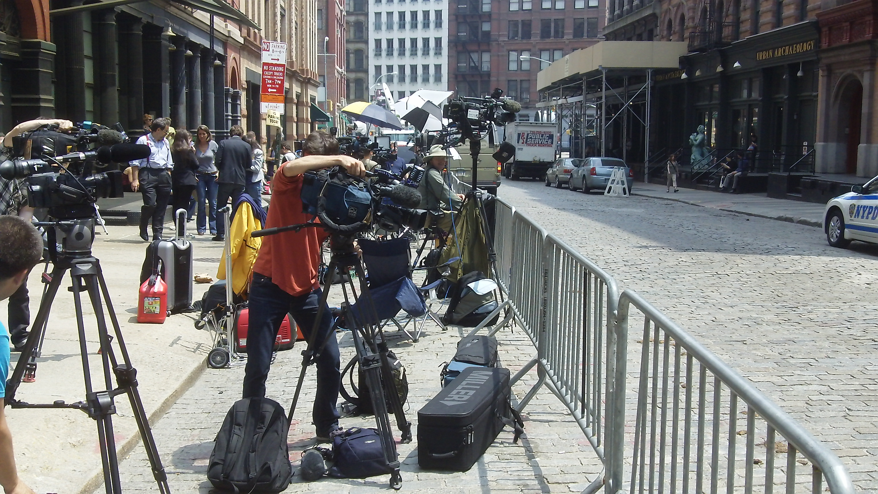 The cameras and reporters assembled opposite 153 Franklin Street, New York, the apartment of Dominique Strauss-Kahn